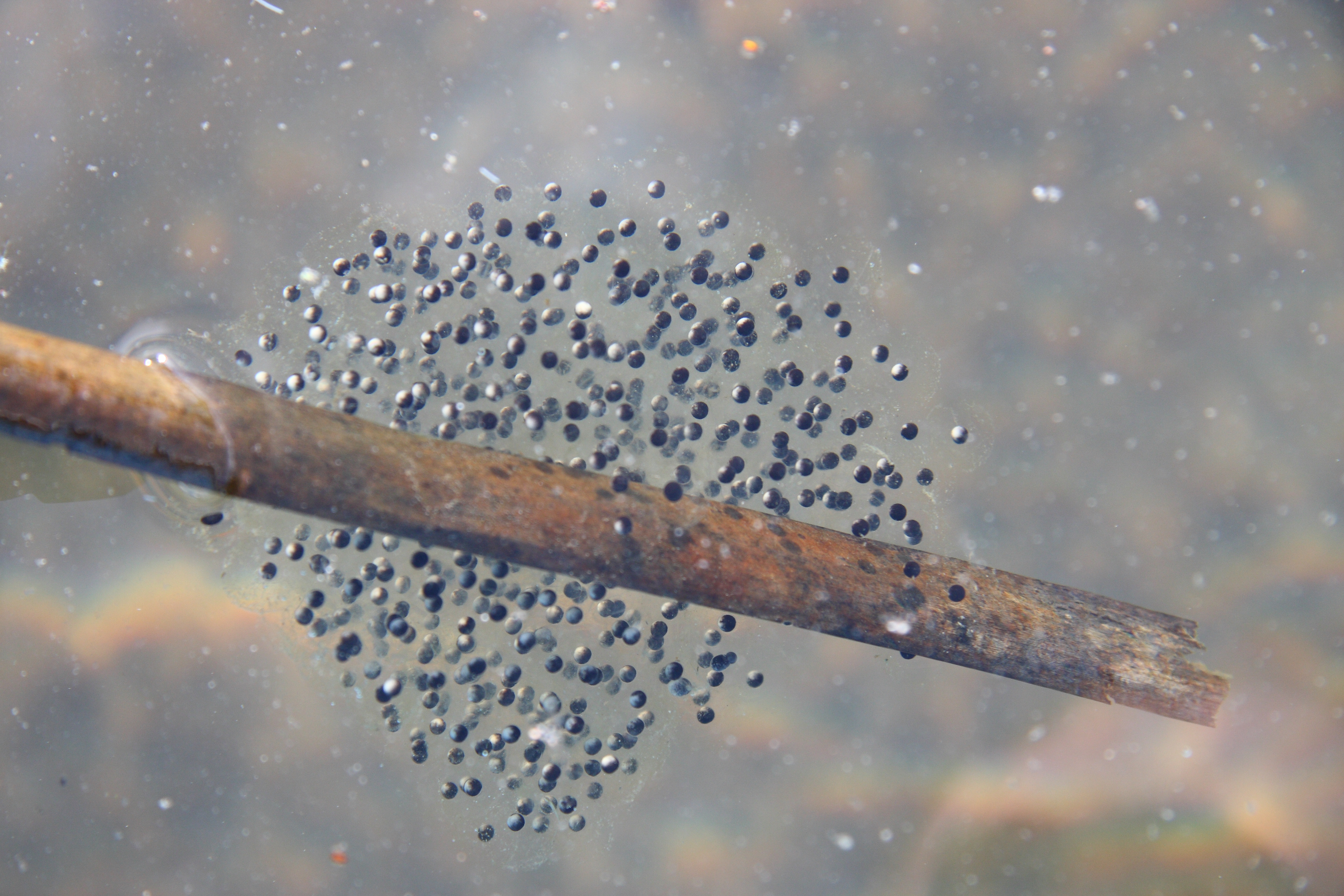 Wood Frog eggs, Saint-Camille, Quebec, Canada